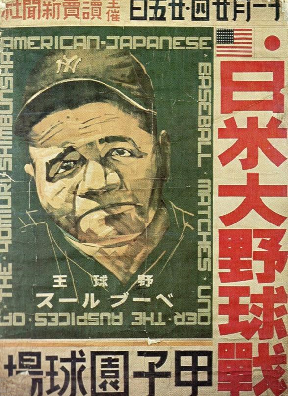 Poster for the 1934 Japan Tour with American All-Stars, including Babe Ruth.